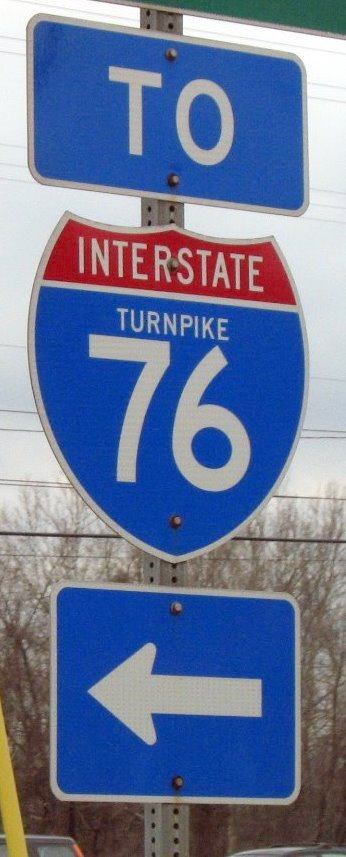 An odd photo of an I-76 shield with "Turnpike" in the State namespace.